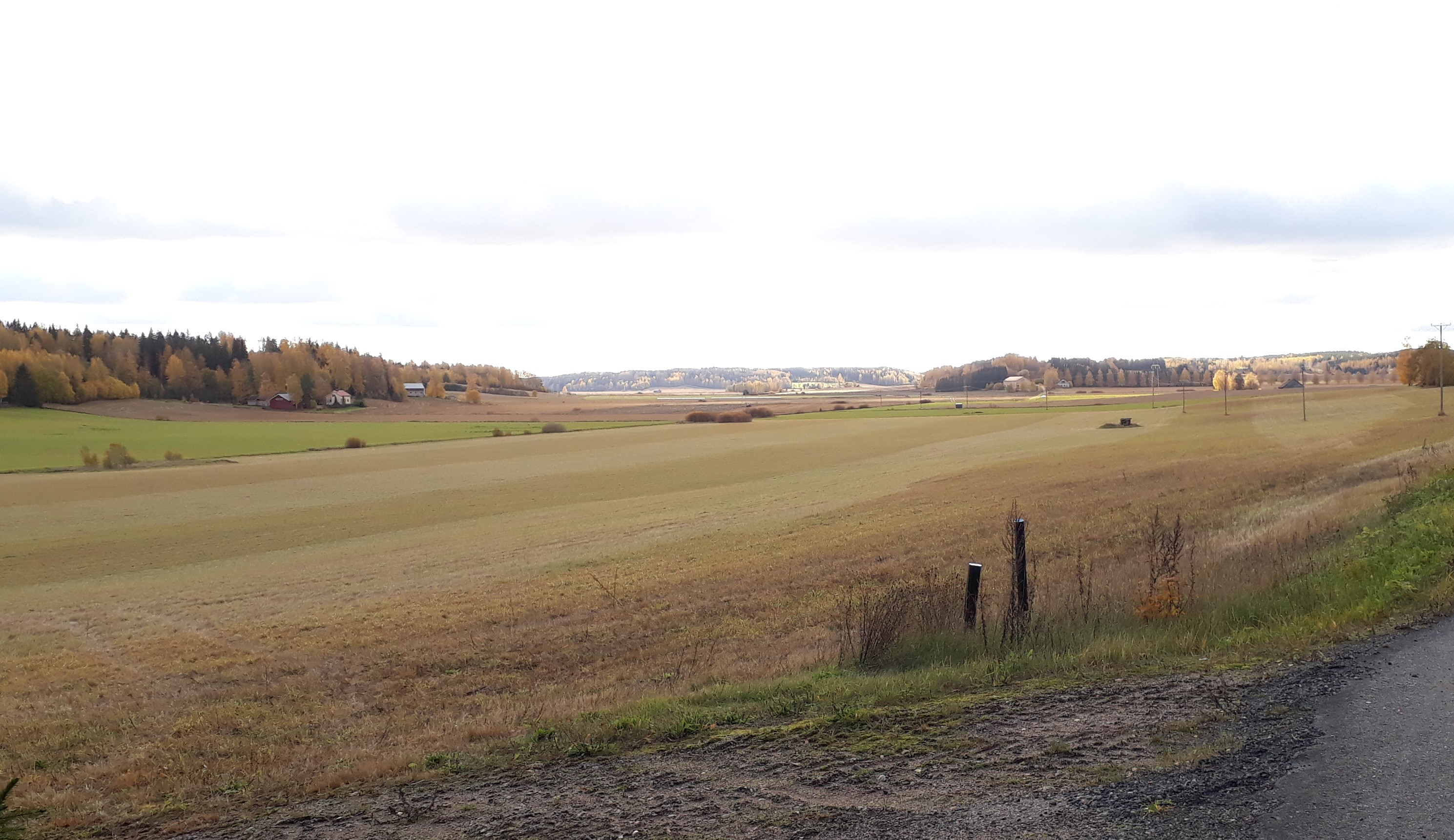 Hamlet of Nokoinen in Perniö, Finland.